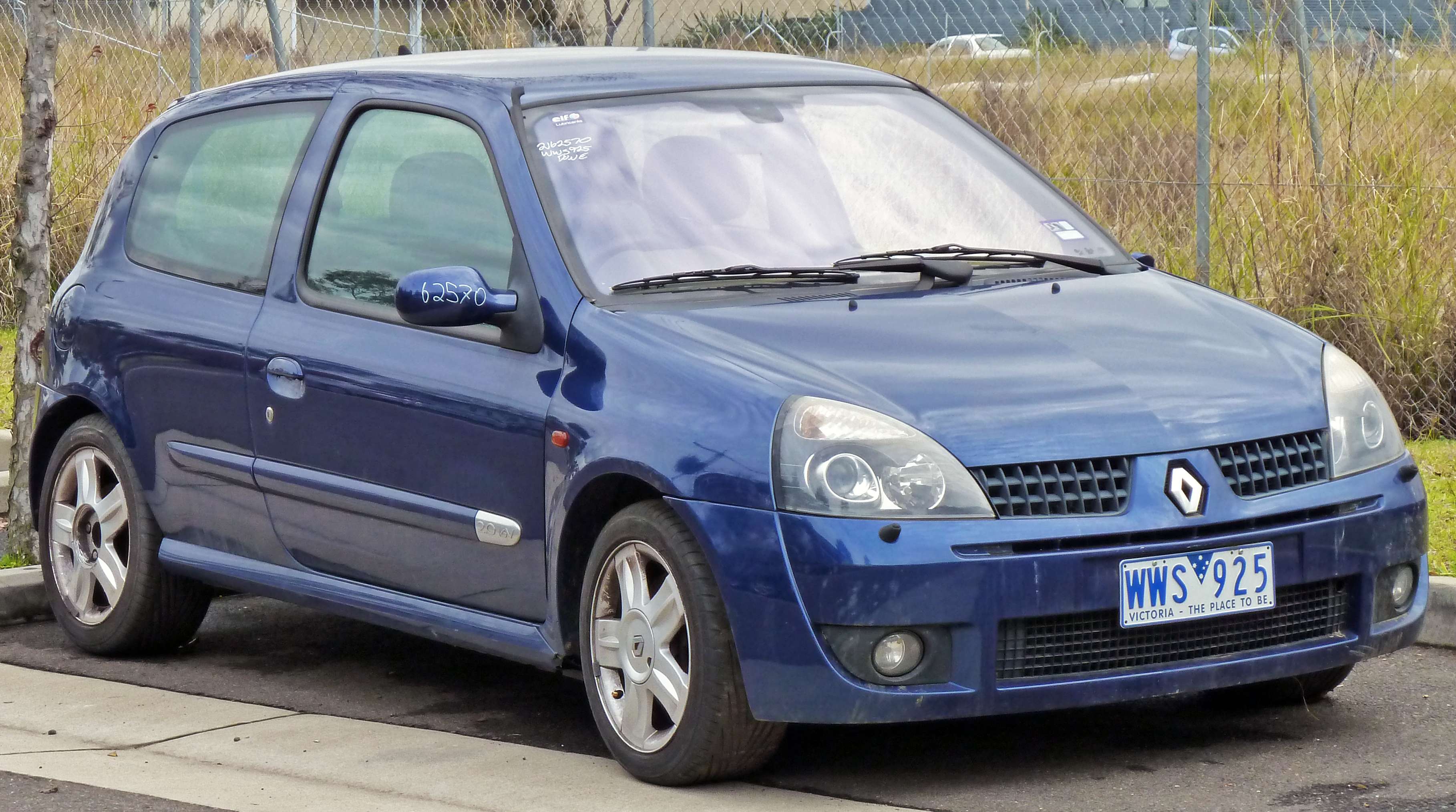 2001 Renault Sport Clio (X65 Phase 2) 3-door hatchback. Photographed in Zetland, New South Wales, Australia. Vehicle registration enquiry results Jurisdiction Victoria Registration WWS925 Chassis code VF1CB150G25711034 Engine code F4R730C004945 Compliance date 2001-12 Year of manufacture 2001